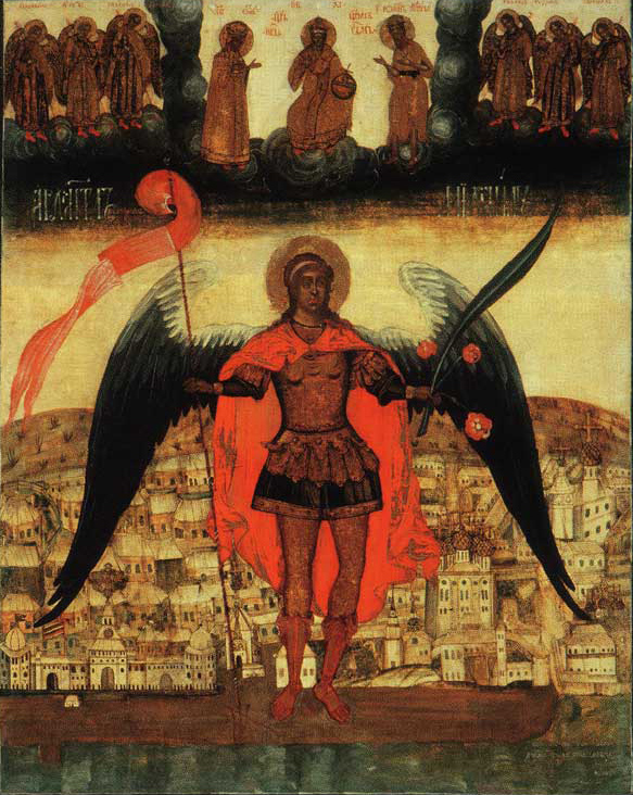 Archangel Michael with view of Archangelsk city